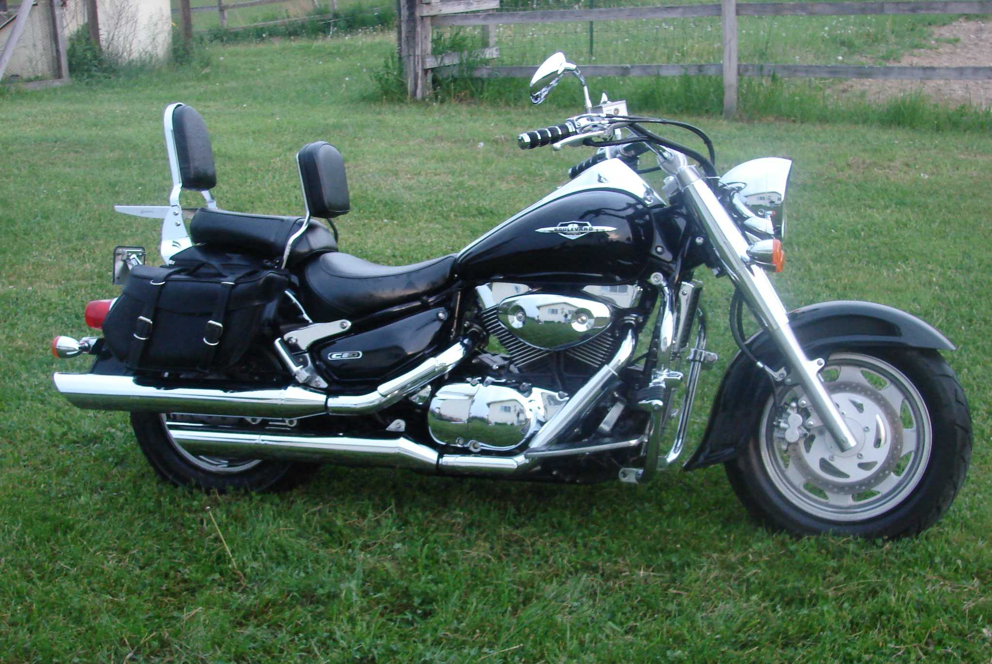 2006 Suzuki C90 Black